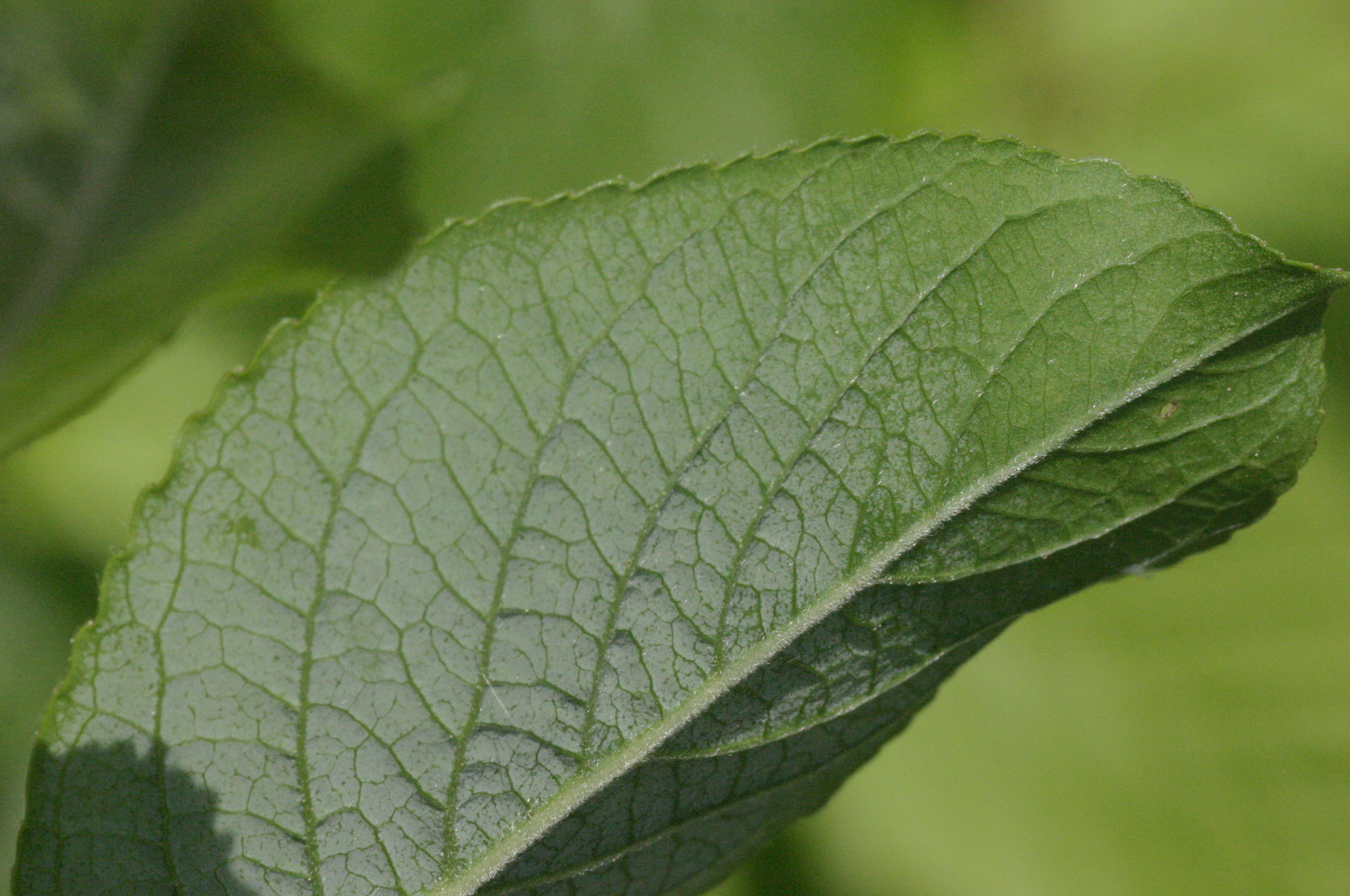 Salix myrsinifolia